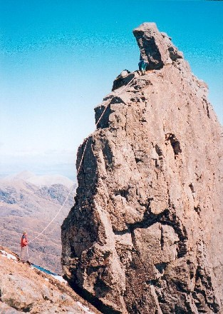 A climber on the west ridge of the Inaccessible Pinnacle, taken from near the lower top of Sgurr Dearg.